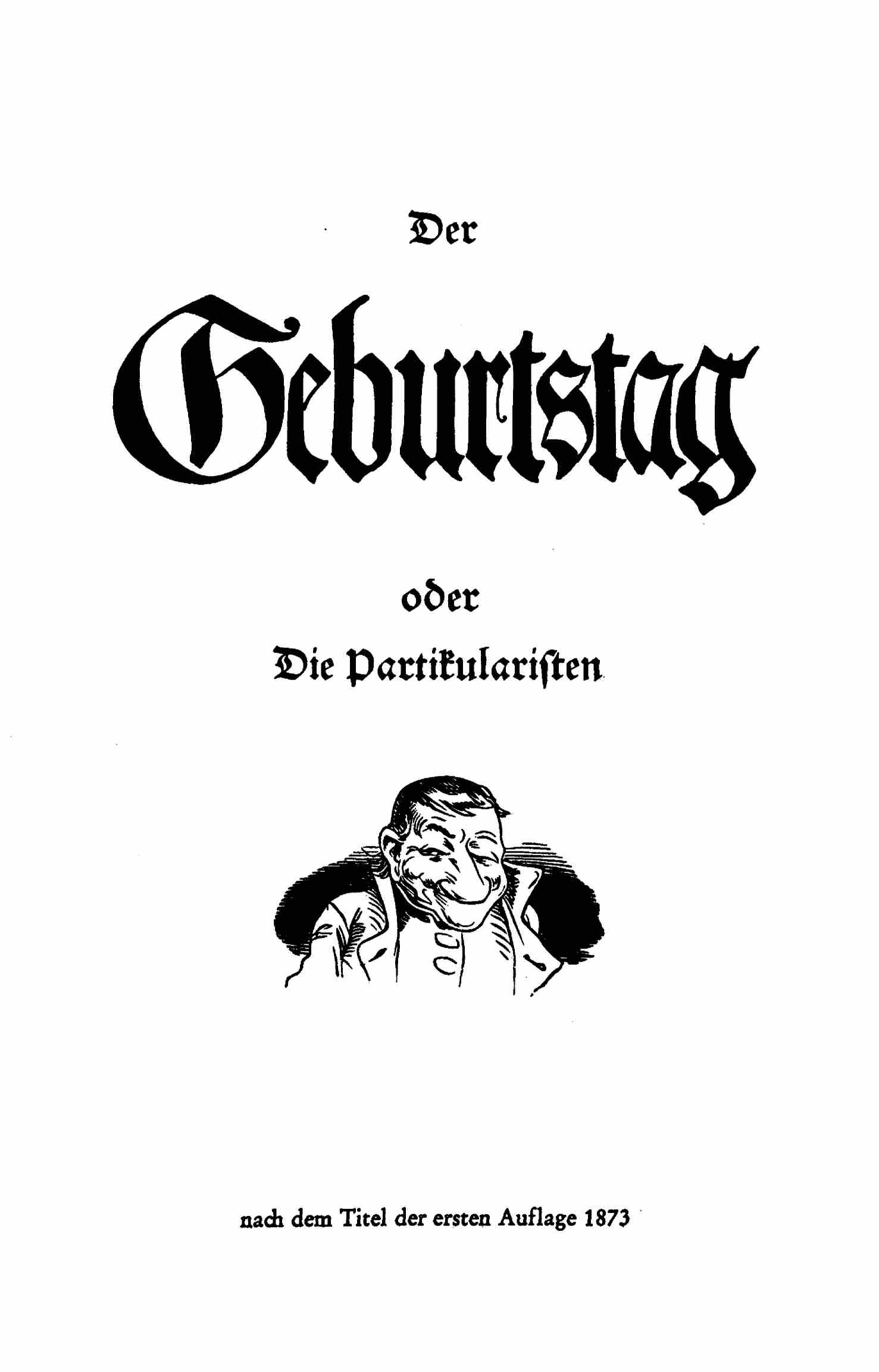 This is a scan of the historical document